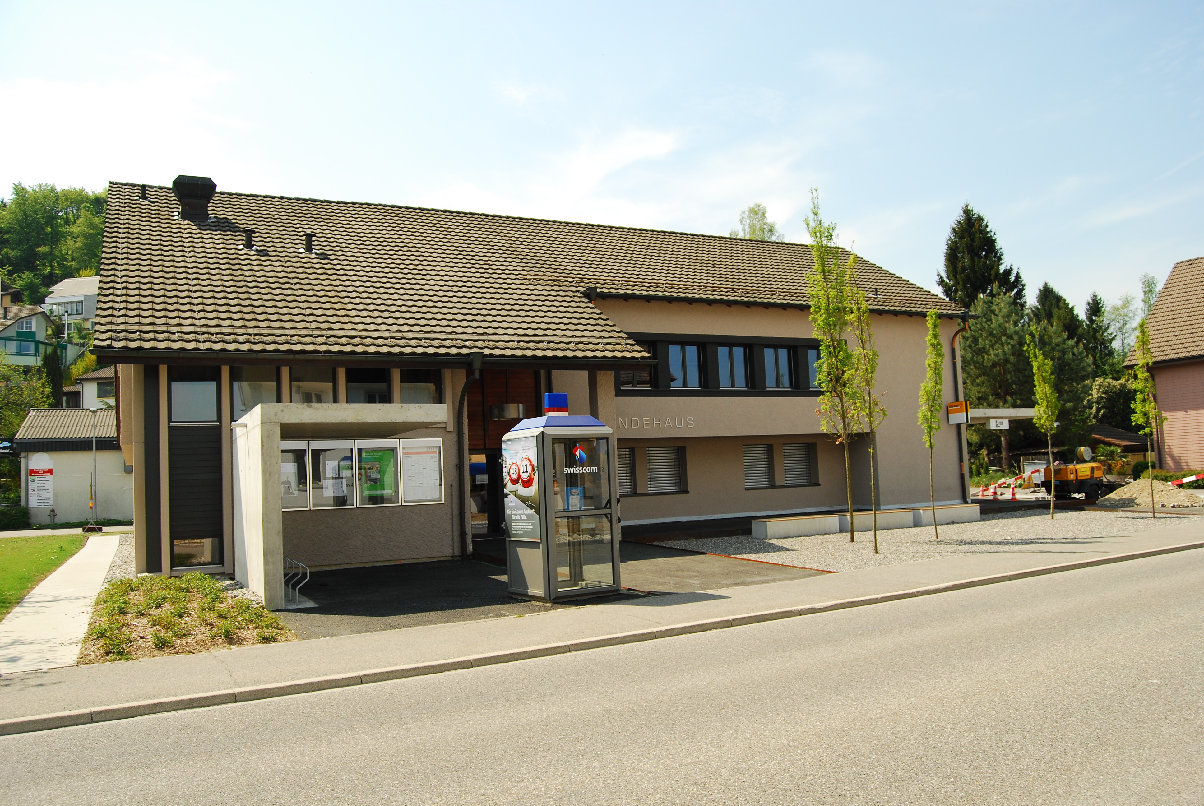 Holziken, canton of Aargau, Switzerland